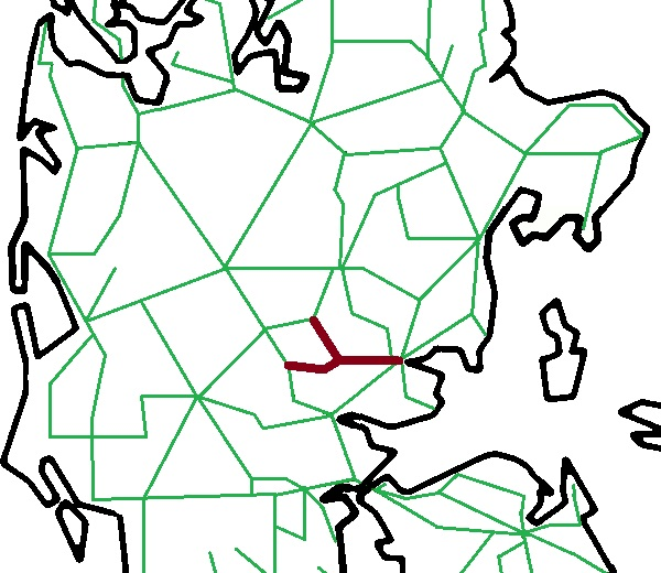 Map of railways in Middle Jutland in Denmark with the private railway Horsens Vestbaner in brown.